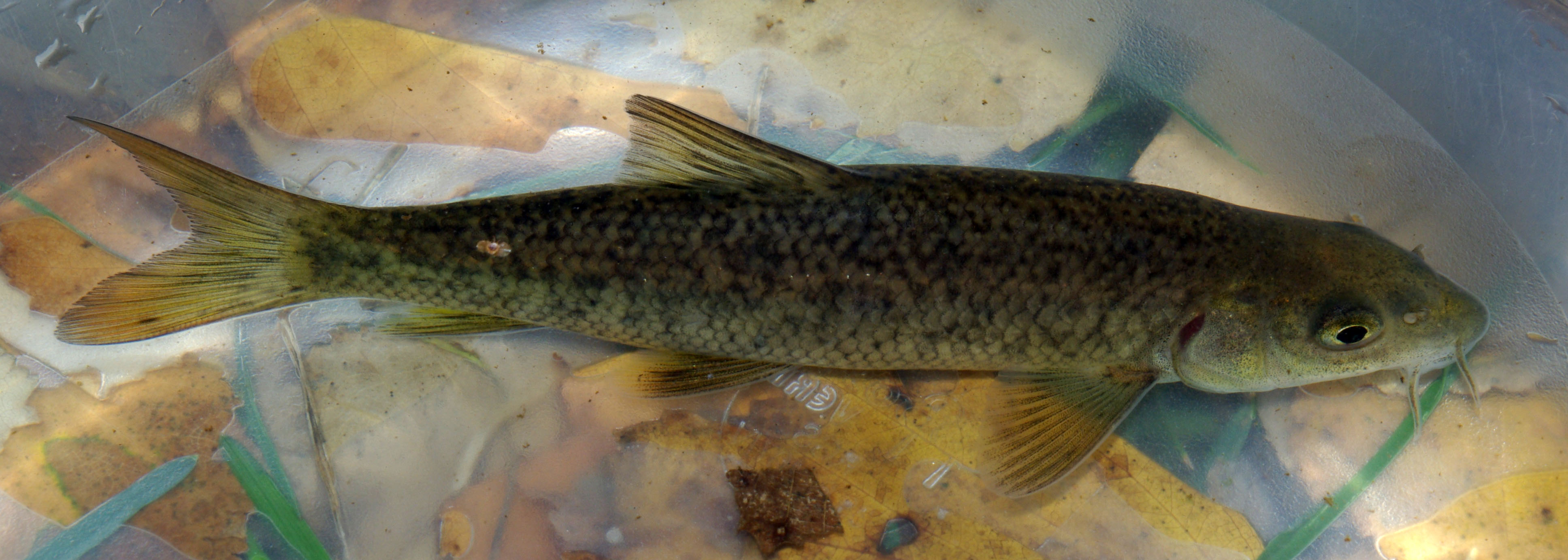 Iberian Barbel Barbus bocagei. River Douro, near Soria, Soria (Spain)